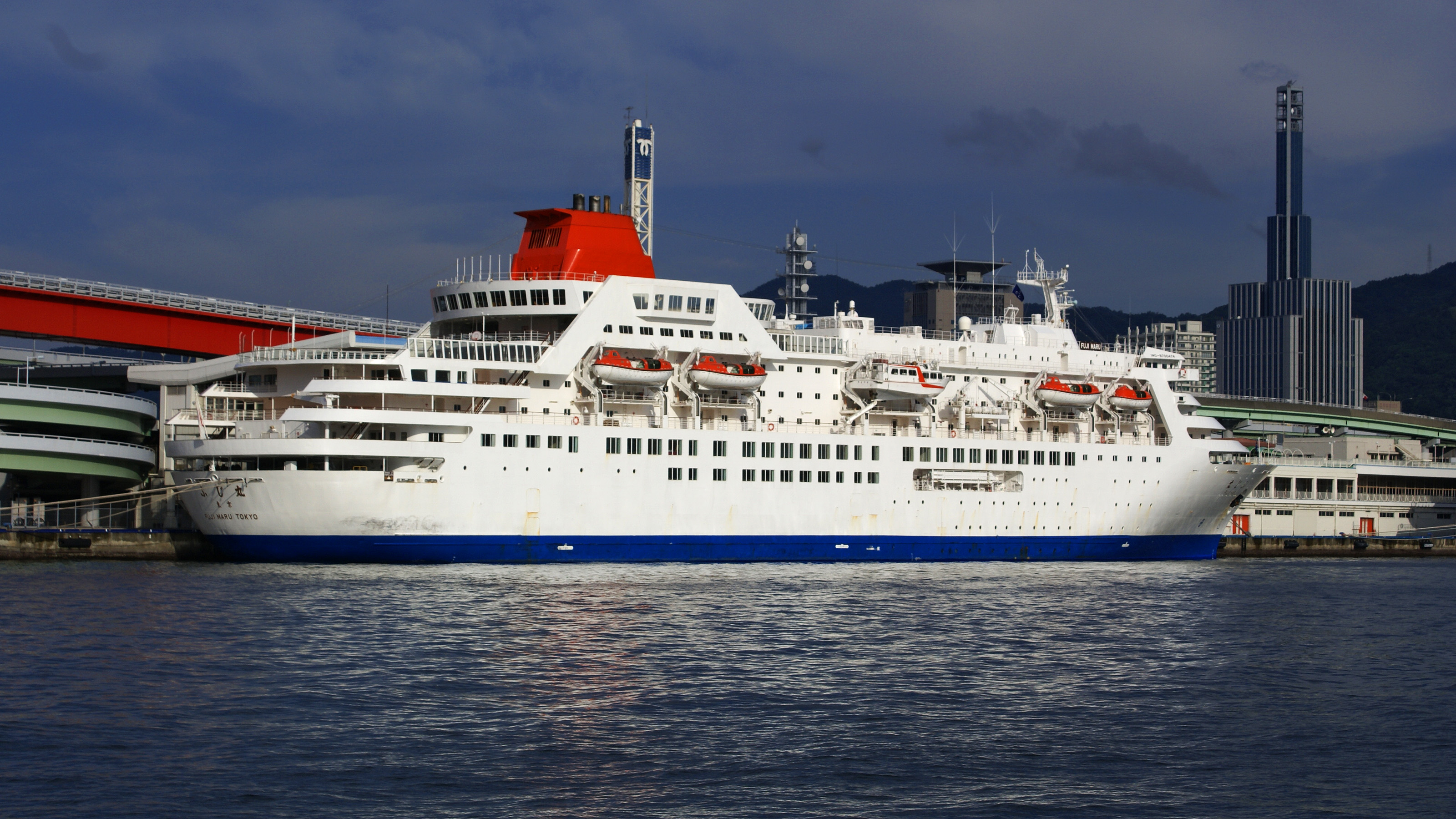 "Fujimaru" who anchors at "Kobe Port Terminal" of the Kobe harbor ( Kobe, Hyogo, Japan)